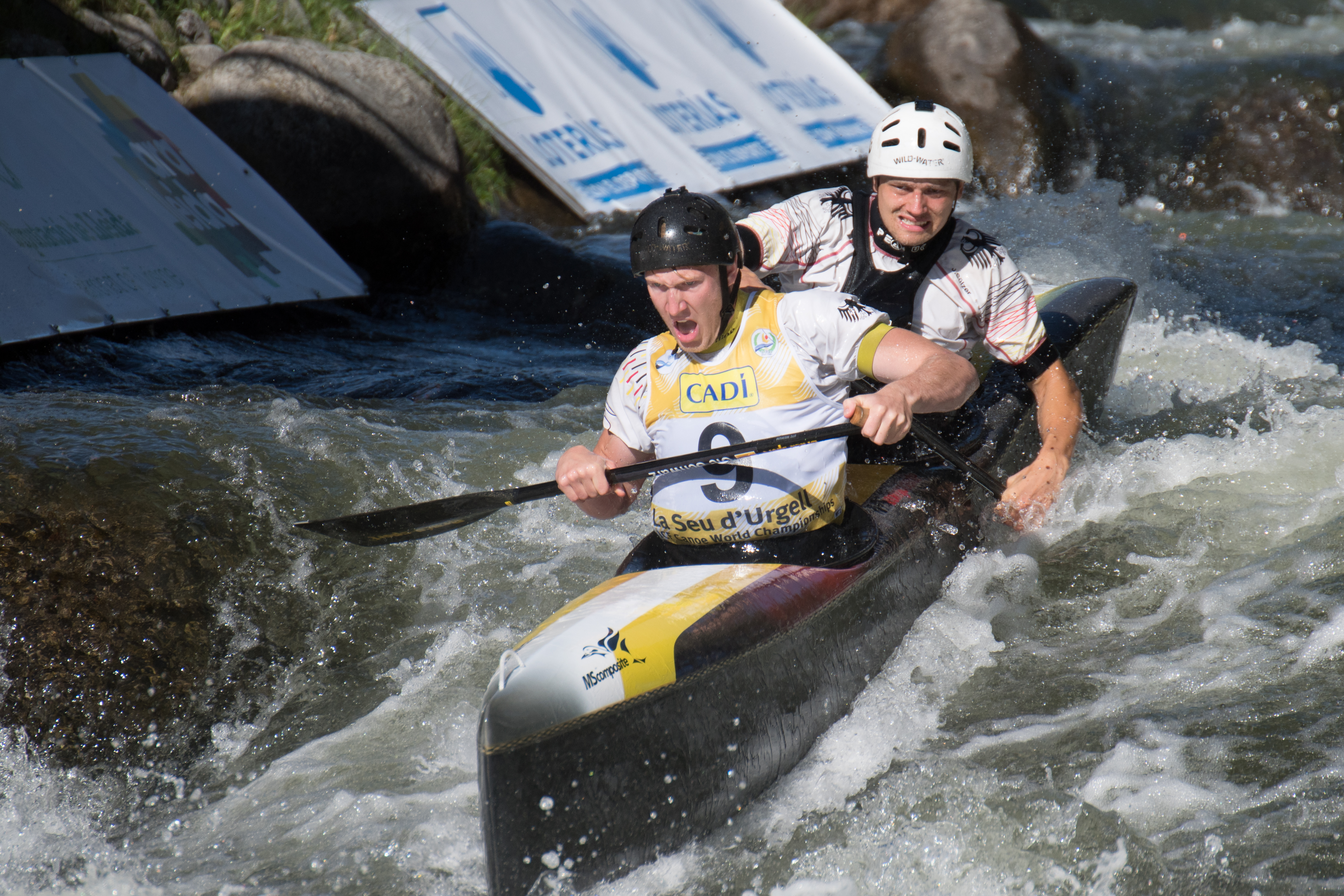 Ole Schwarz and Janosch Suelzer during the 2019 Canoe Wildwater World Championships in La Seu d'Urgell, Spain.